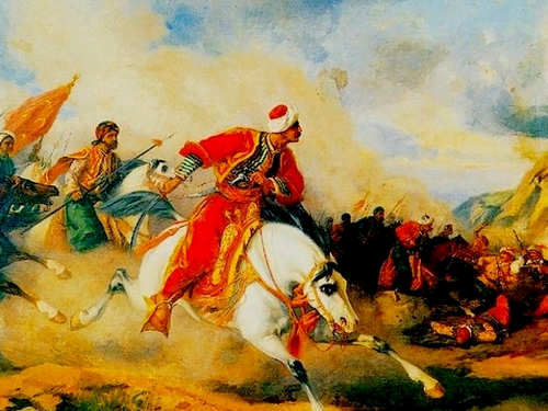 Yauz Sultan Selim in the Battlefield.